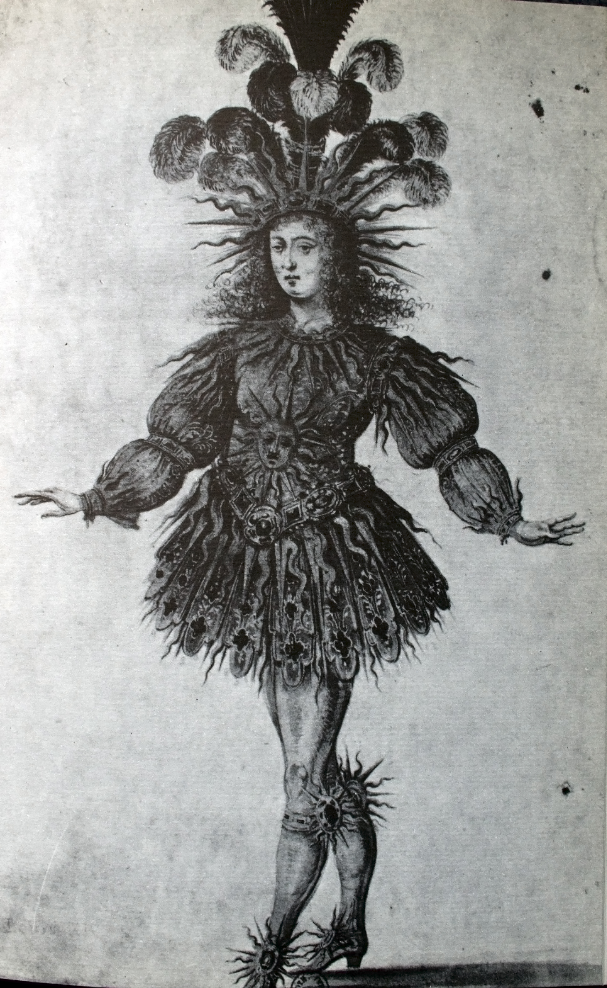 Louis XIV in the role of Apollo